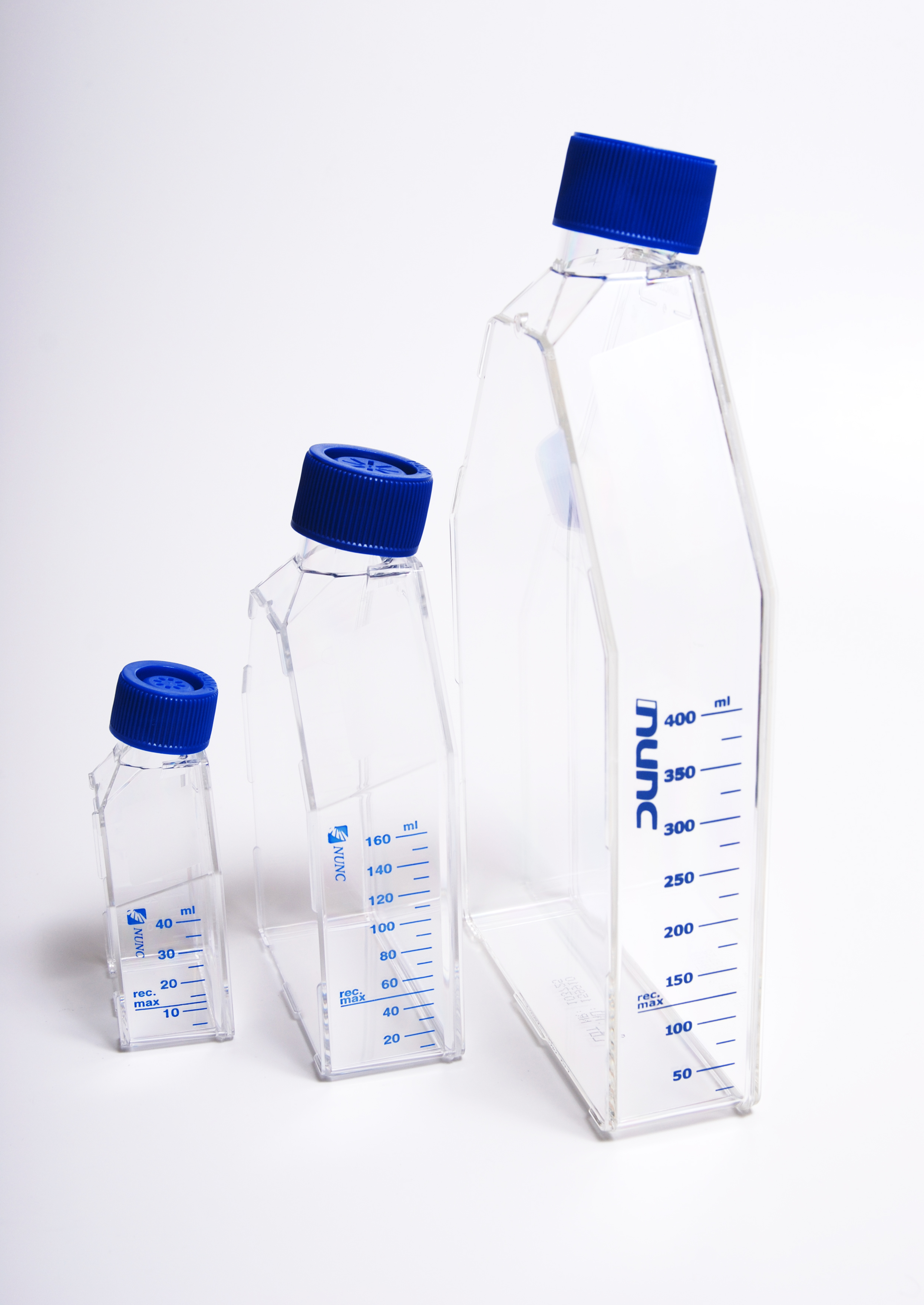 Set of different cell culture flat flasks